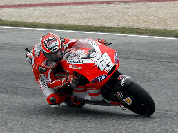 Nicky Hayden 2011 Estoril